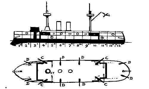 Plan and side view diagram of the Imperator Aleksandr II-class battleships